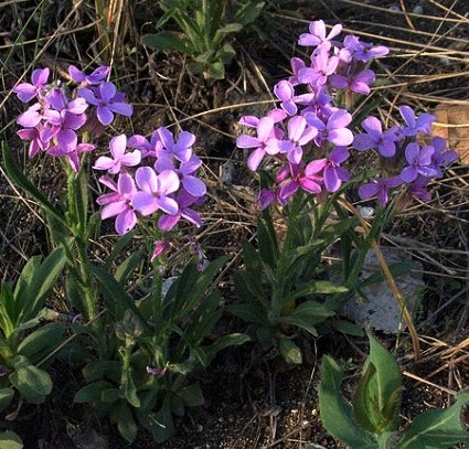 Clausia aprica (Stephan) Korn.-Trotzky, Brassicaceae, Tiv-Tiav Mount near Samara, Russia